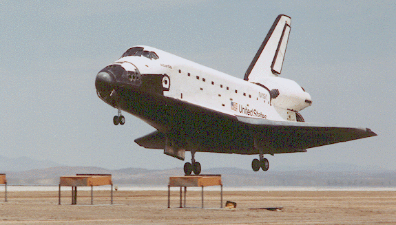 Atlantis land